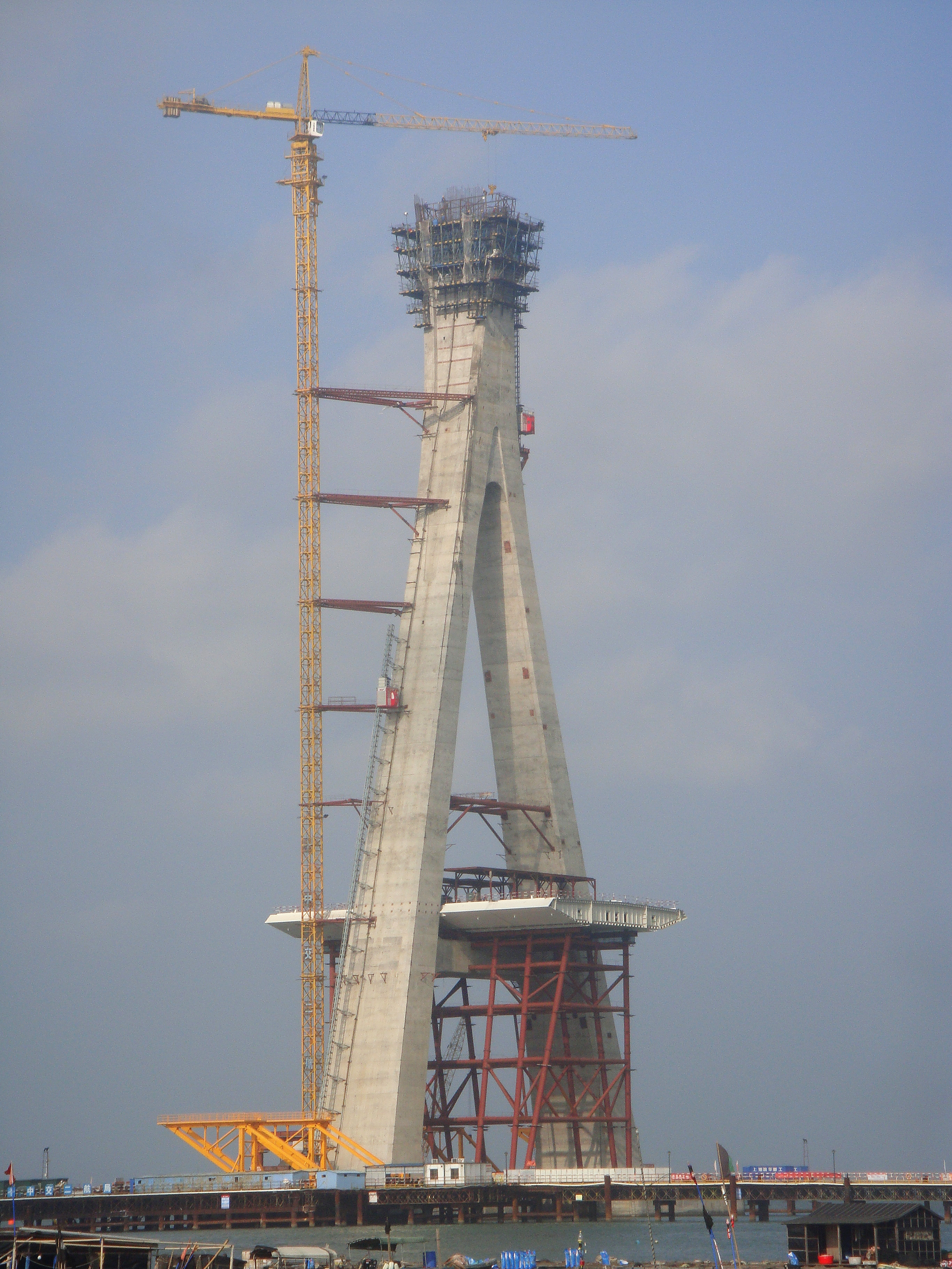 Puqian Bridge main pylon viewed from the south 2018 01 25